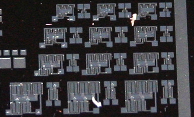 Ring oscillators fabricated on silicon using PMOS MOSFETs.